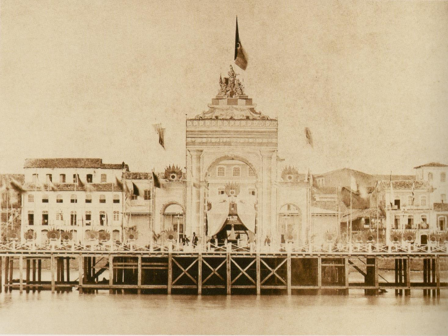 Belém, capital of the province of Pará, 1867.